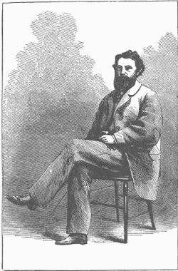 An 1863 of 1864 drawing of American pioneer Sylvester Mowry from the book "Adventures in the Apache Country" by John Ross Browne.